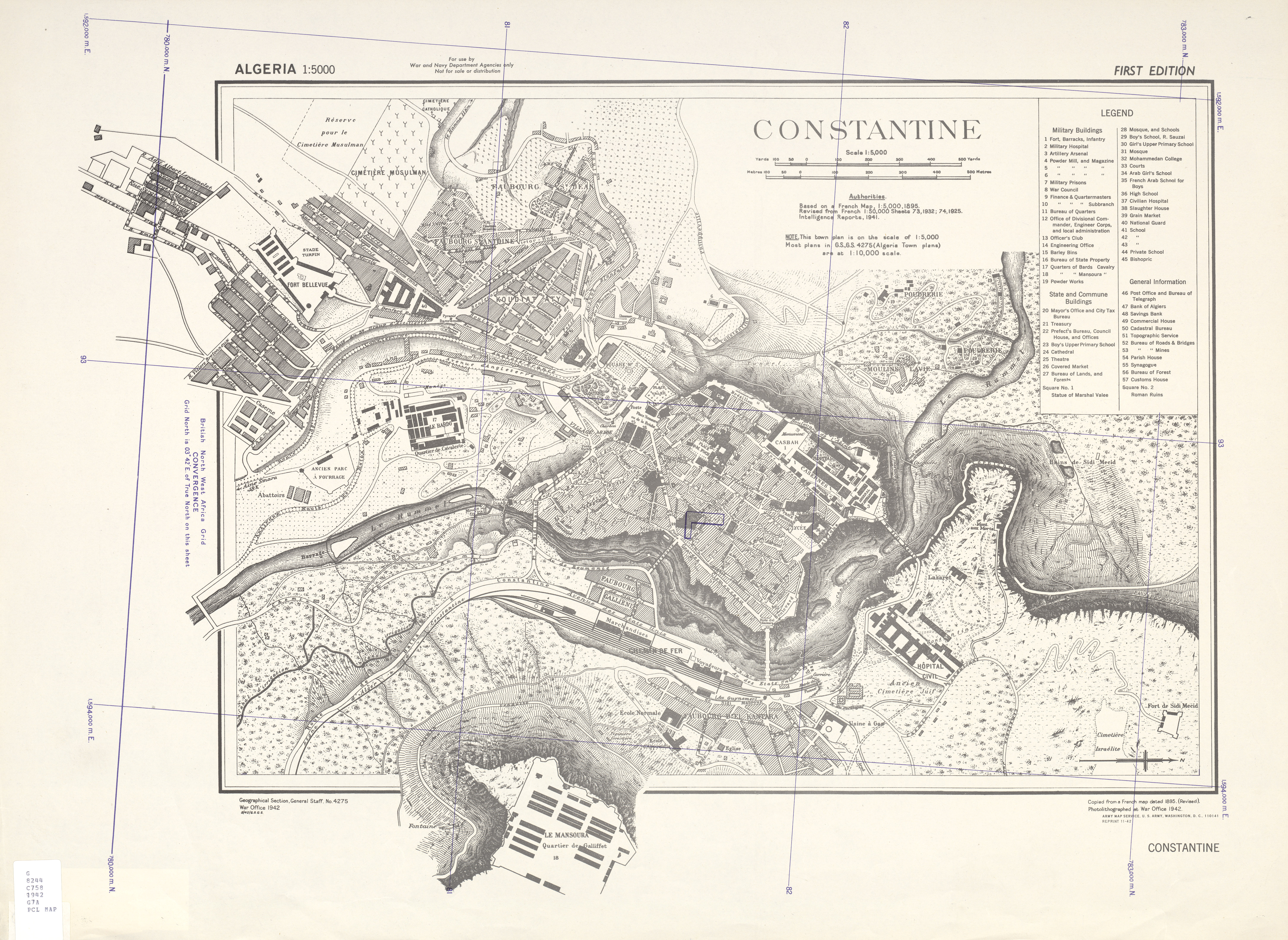 a ww2 map of Constantine